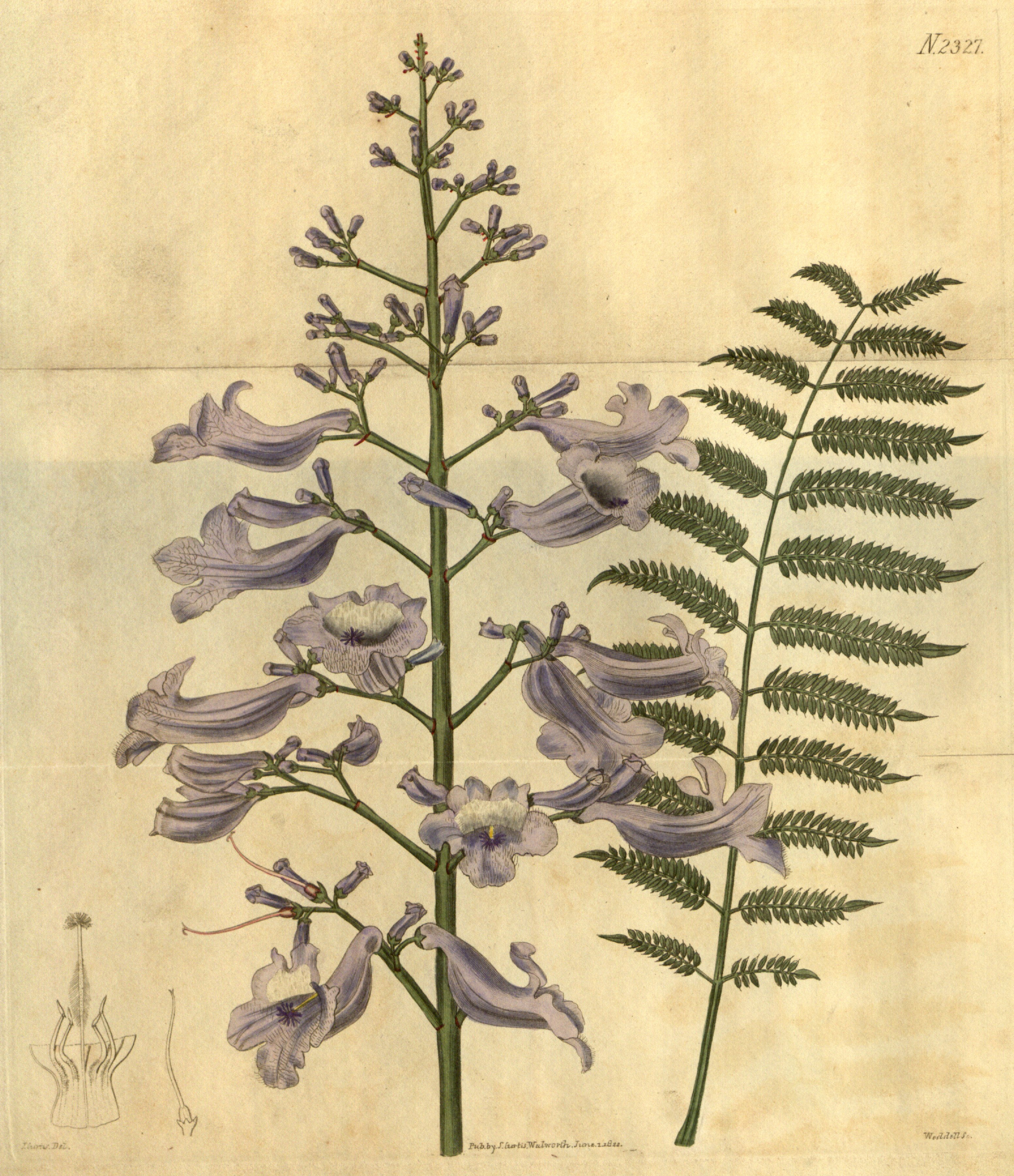 Jacaranda mimosifolia as Jacaranda ovalifolia R.Br.